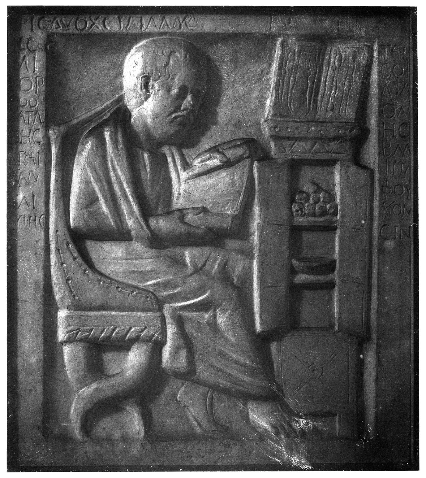 Greco-Roman physician in his study, plaster cast in W.H.M.M. Wellcome Images Keywords: history of medicine-greek; ancient medicine